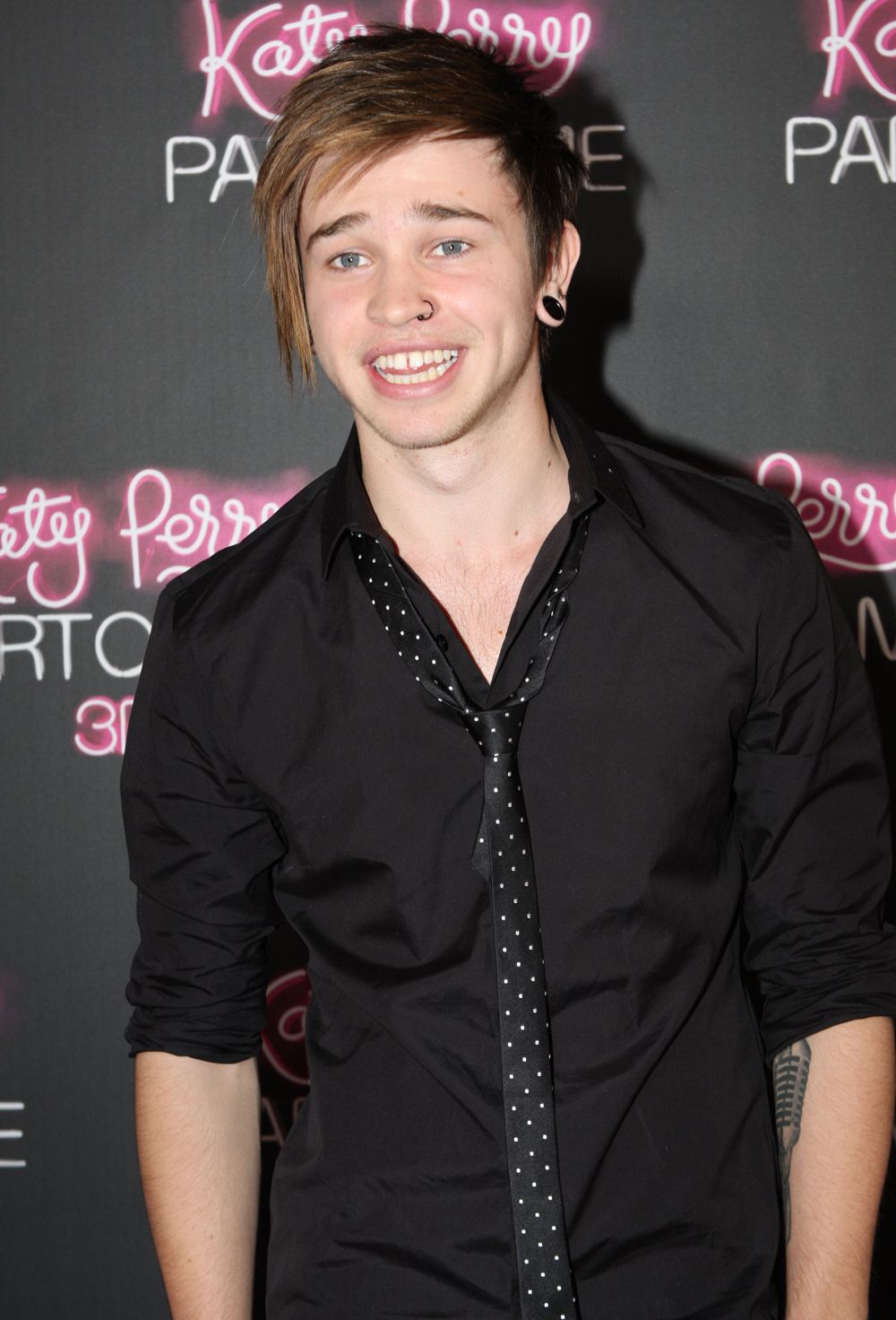 Reece Mastin at the Katy Perry: Part Of Me Australian Premiere in June 2012.